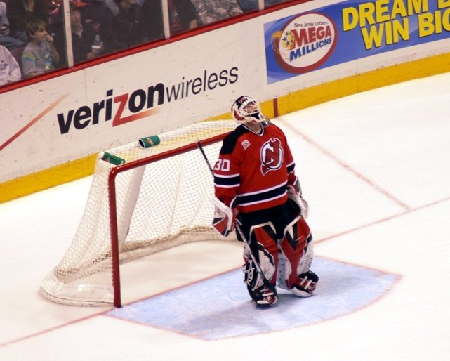 Martin Brodeur goalie of the New Jersey Devils from the NHL.New_Jersey_Devils_Match